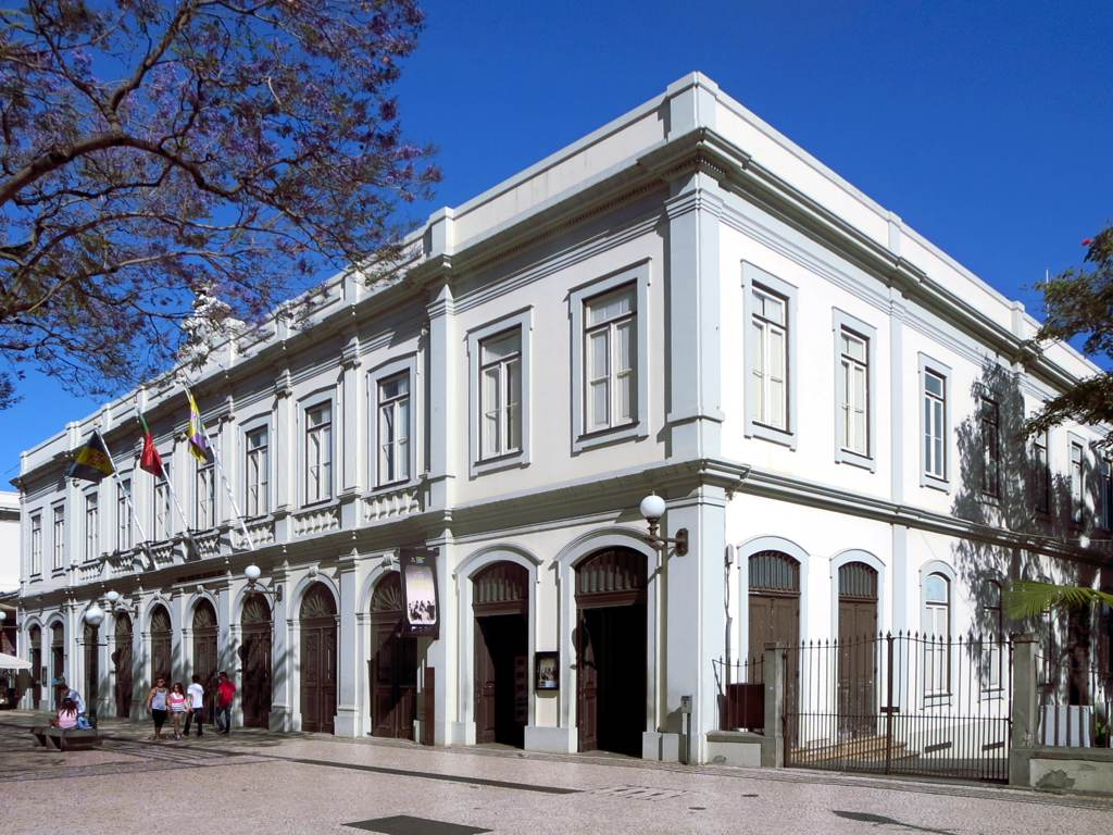 The neoclassical Teatro Municipal Baltazar Dias (1888) faces the Jardim Municipal in the center of Funchal, Madeira.